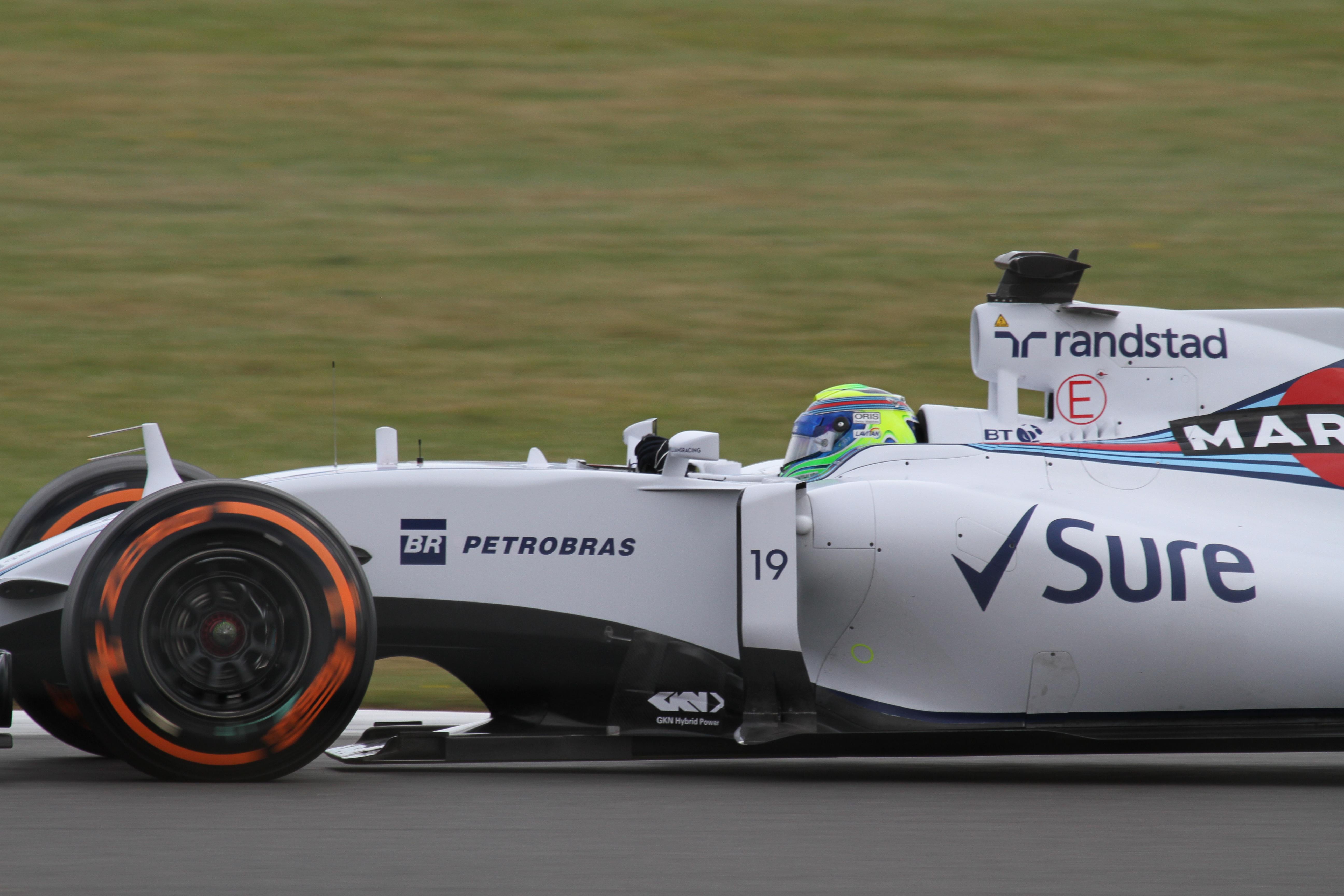 Felipe Massa at the 2015 British Grand Prix